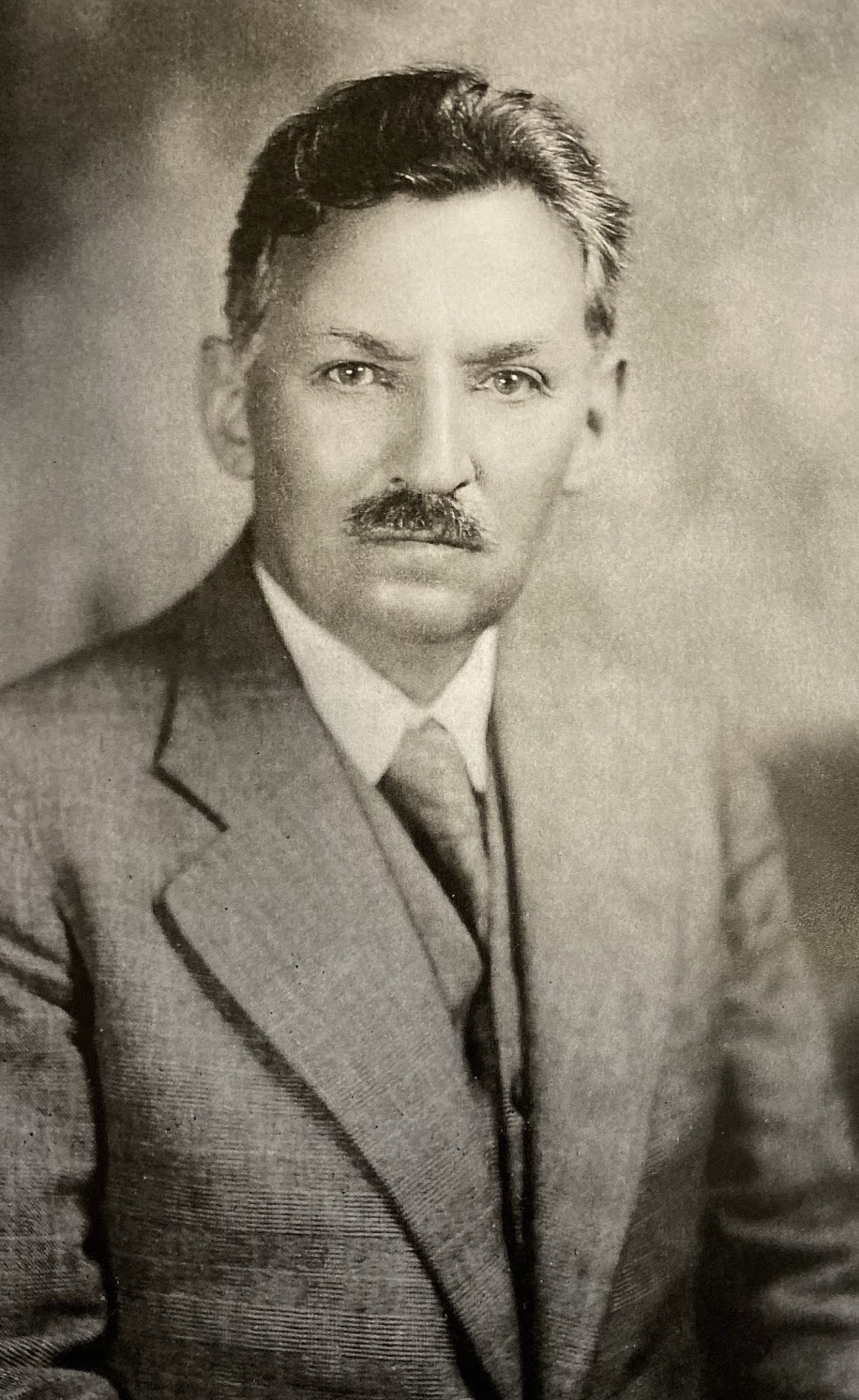 Photo from Leichtentritt's autobiography.